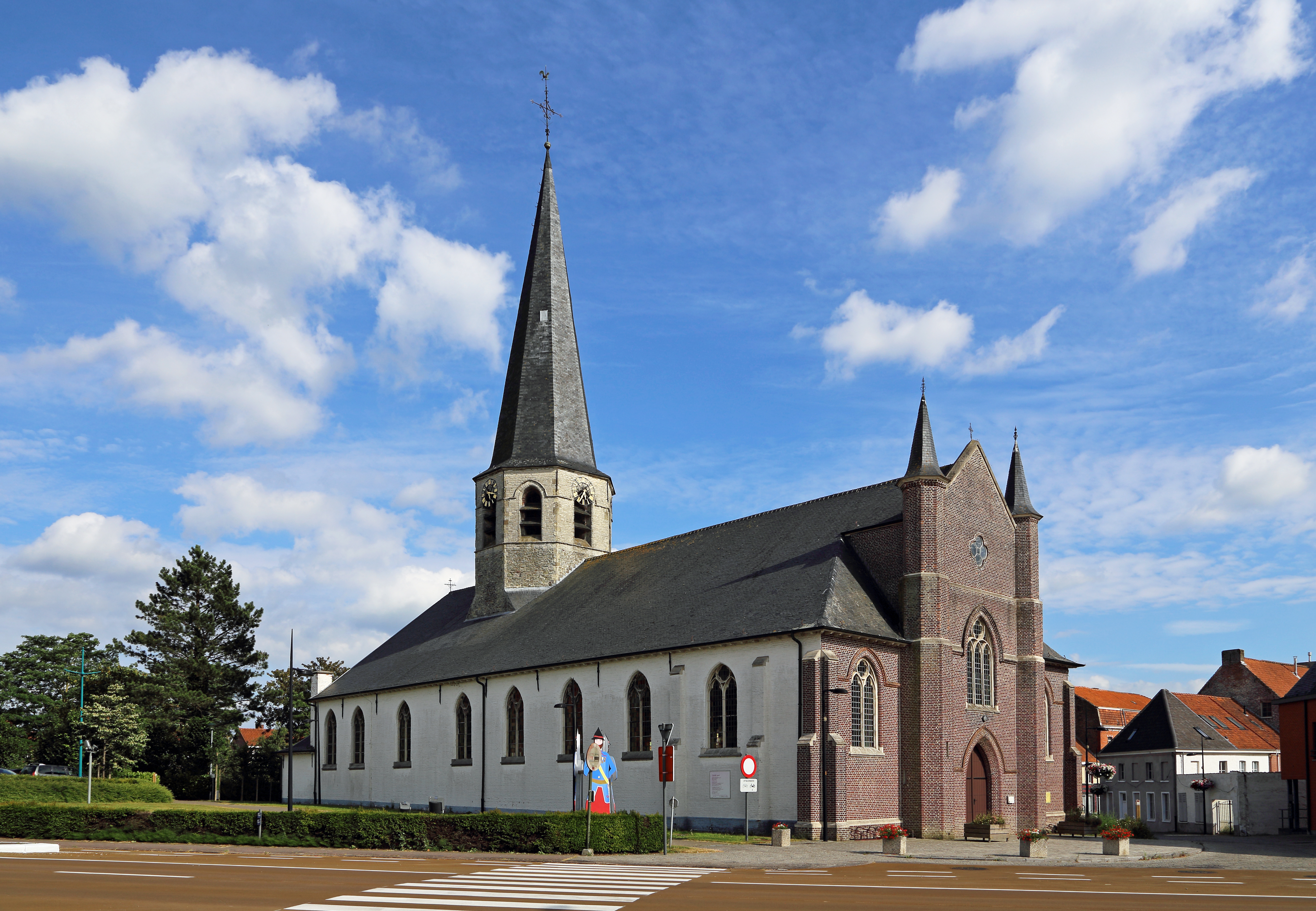 Ursel (municipality of Knesselare, province of East Flanders, Belgium): St Medardus church